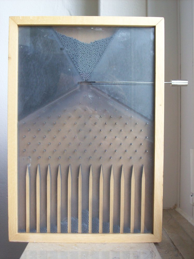 Galton box